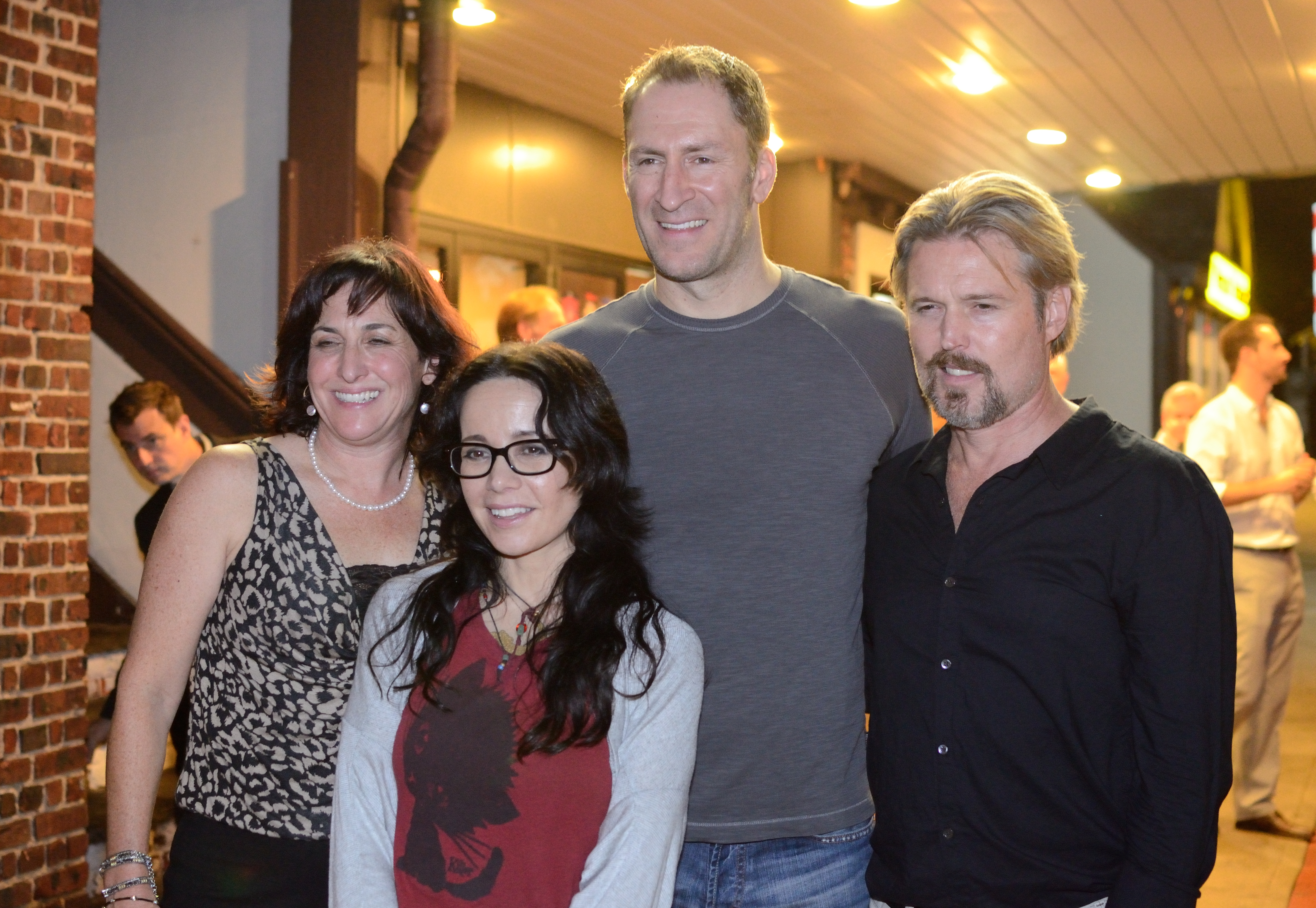 Bad Parents World Premier at the MontClair Film Festival